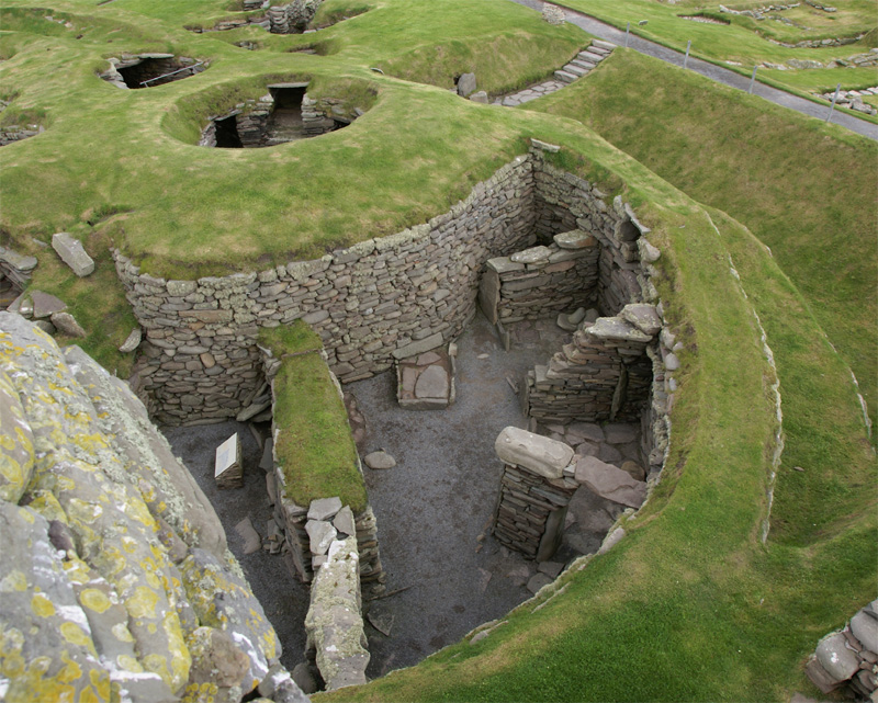 Jarlshof, Shetland, Scotland - aisled roundhouse and broch